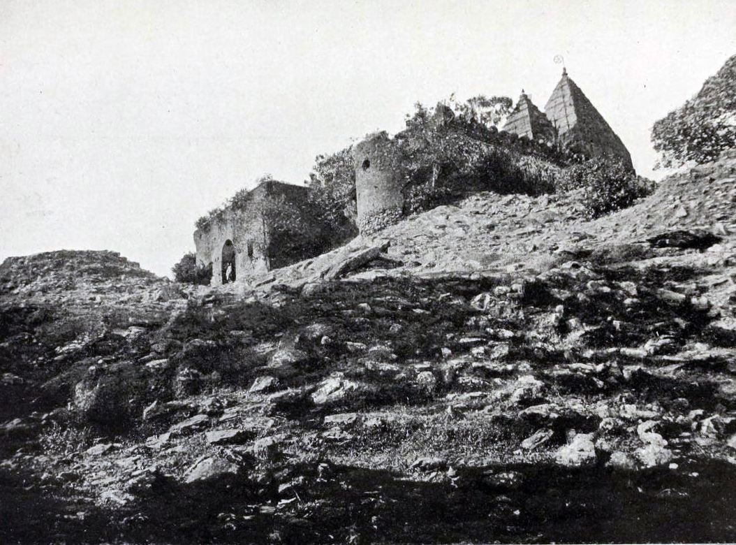 Jagannath Temple, Ranchi 1910